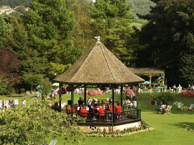 Bandstand, Bath The sun has finally emerged and the deckchairs in Parade Gardens are occupied. A seagull flaps its wings on the apex of the bandstand as the band plays. Local residents have free access to the gardens; others must pay.